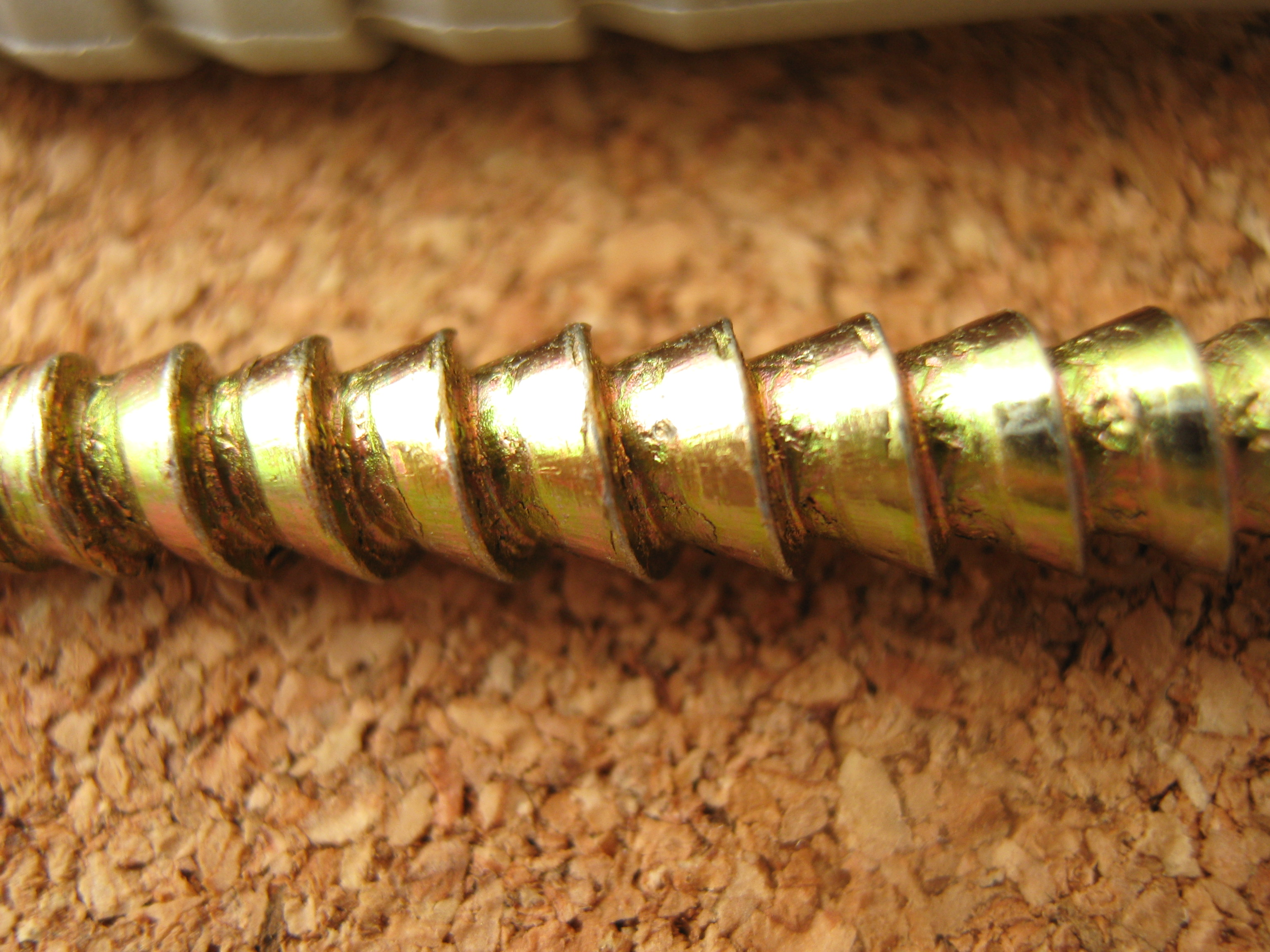 Screw thread of metal nail for screw anchor